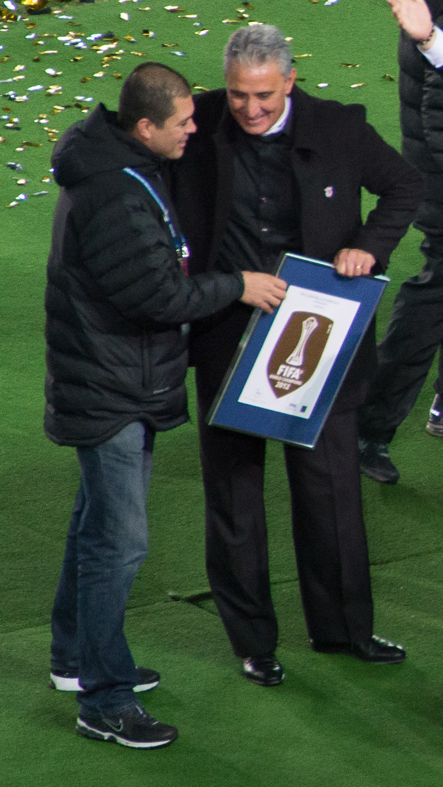 Players of SC COrinthians.